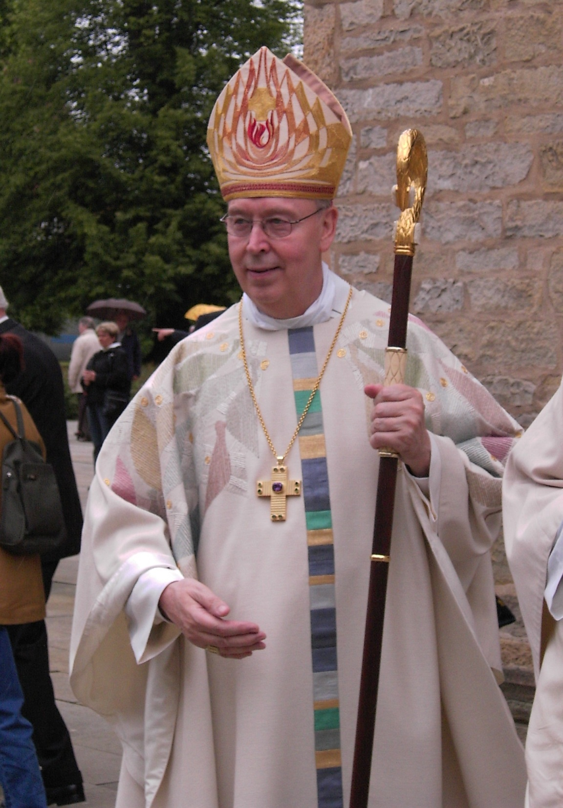 Norbert Trelle, bishop of Hildesheim.